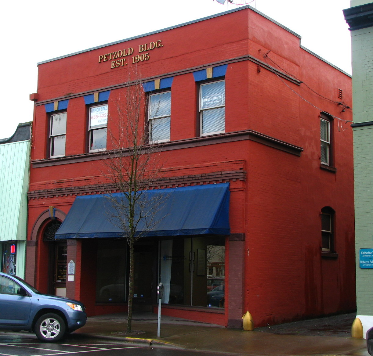 The historic Richard B. Petzold Building (built ca. 1905), located at 714 Main Street in Oregon City, Oregon, United States, is listed on the US National Register of Historic Places.